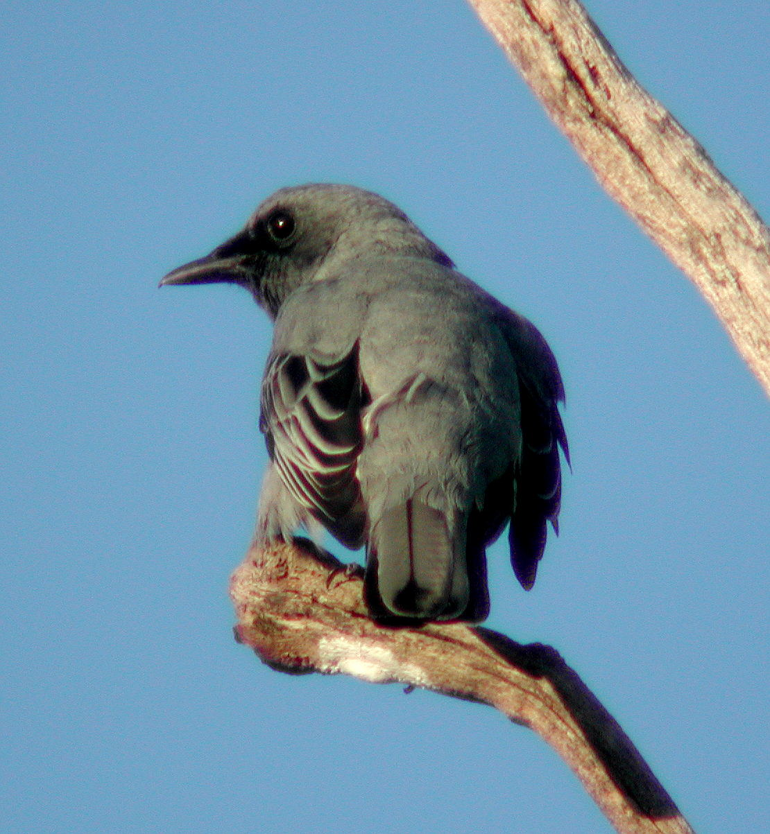 Male Cicadabird Coracina tenuirostris Kobble Creek, SE Queensland, Australia